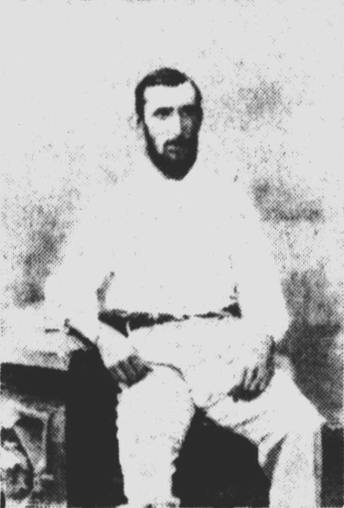 Tom Garrett